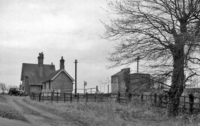 Birdingbury Station (remains). View ENE, towards Rugby; Rugby - Leamington Spa line. Station and line closed to passengers on 15/6/59, but line remained open for cement traffic at Southam until 1985. The station seemed already to be converted to a private house in 1962.